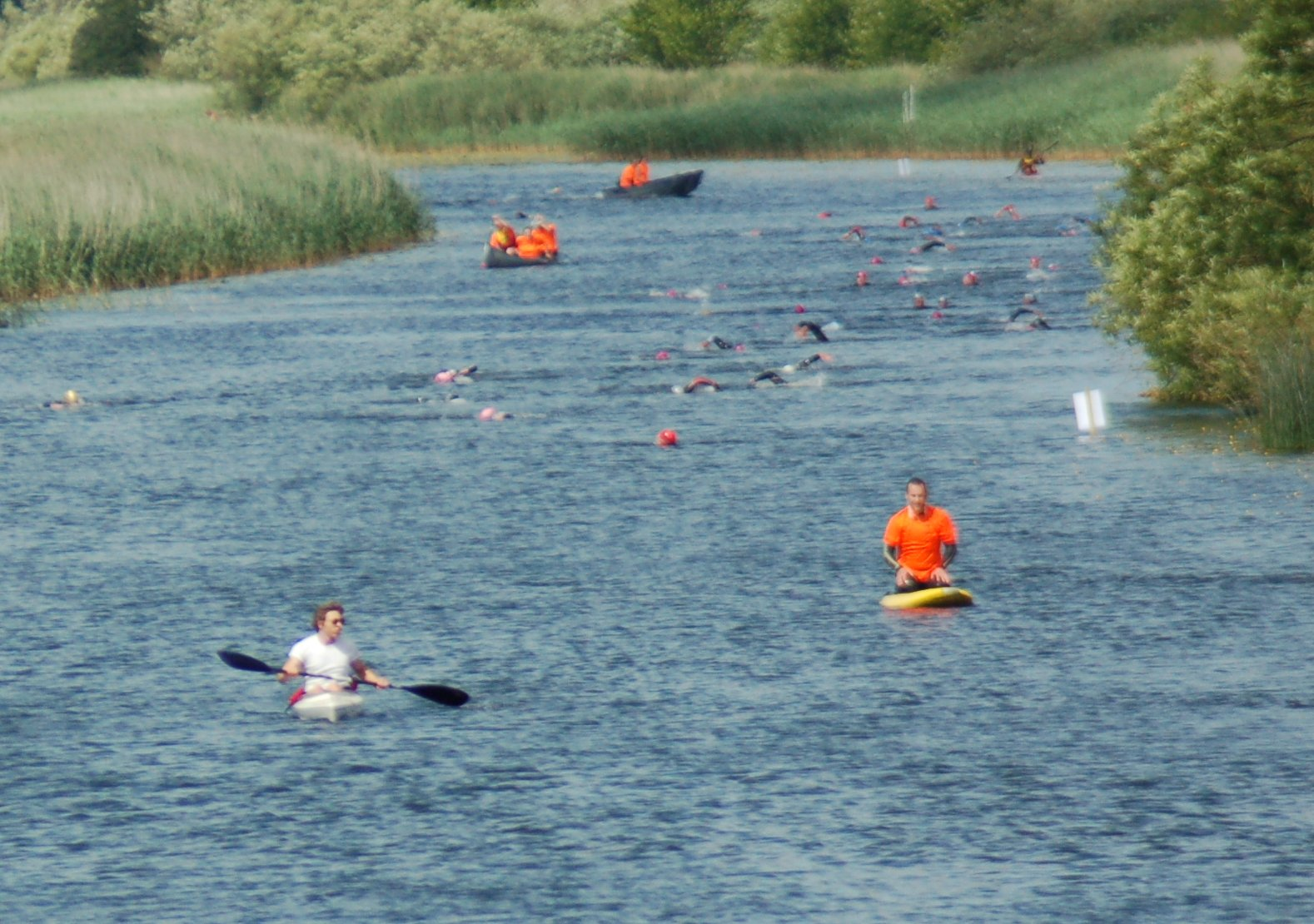 Open waters swimmers with safety people